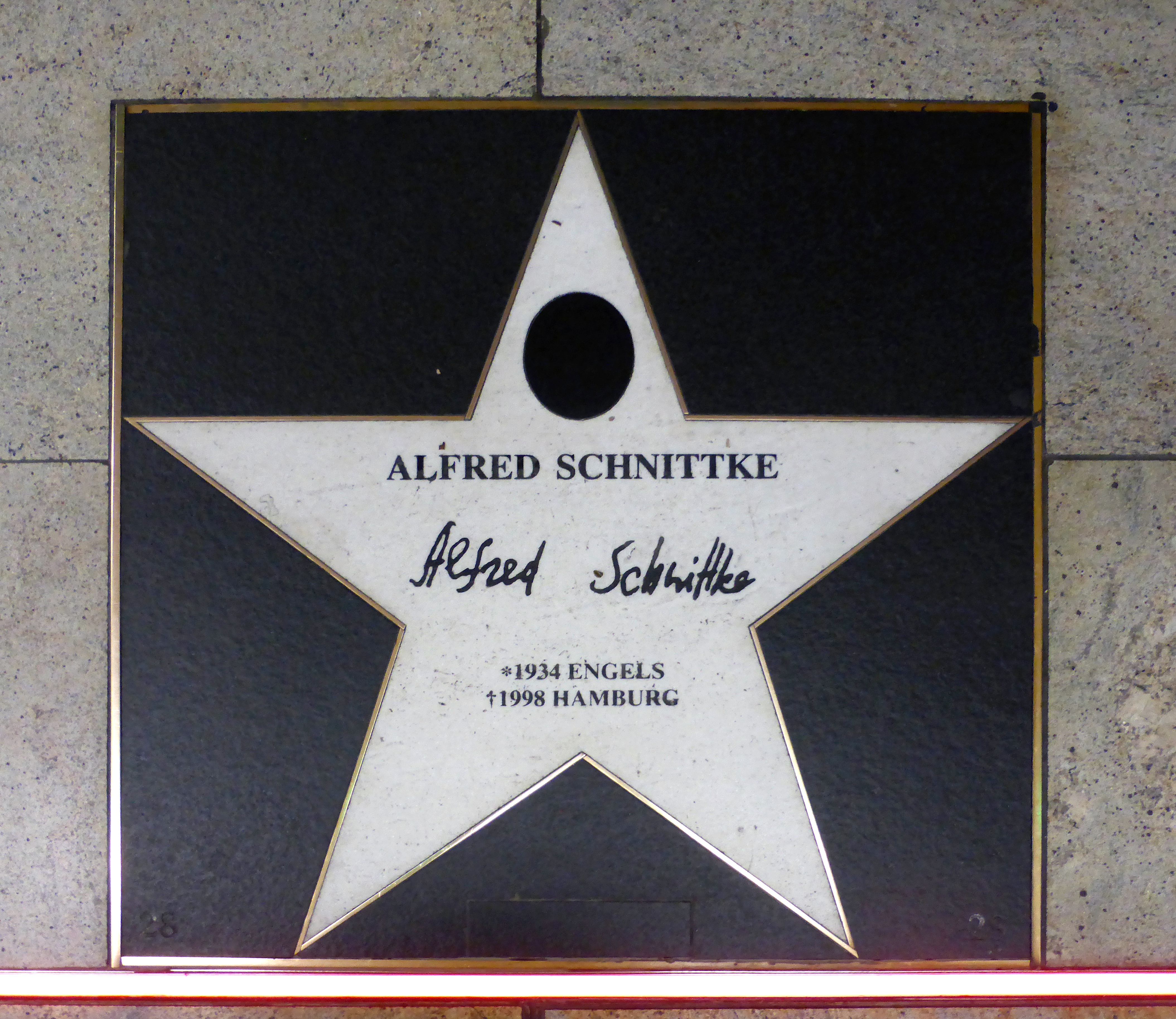 Walk of Fame Vienna Alfred Schnittke.